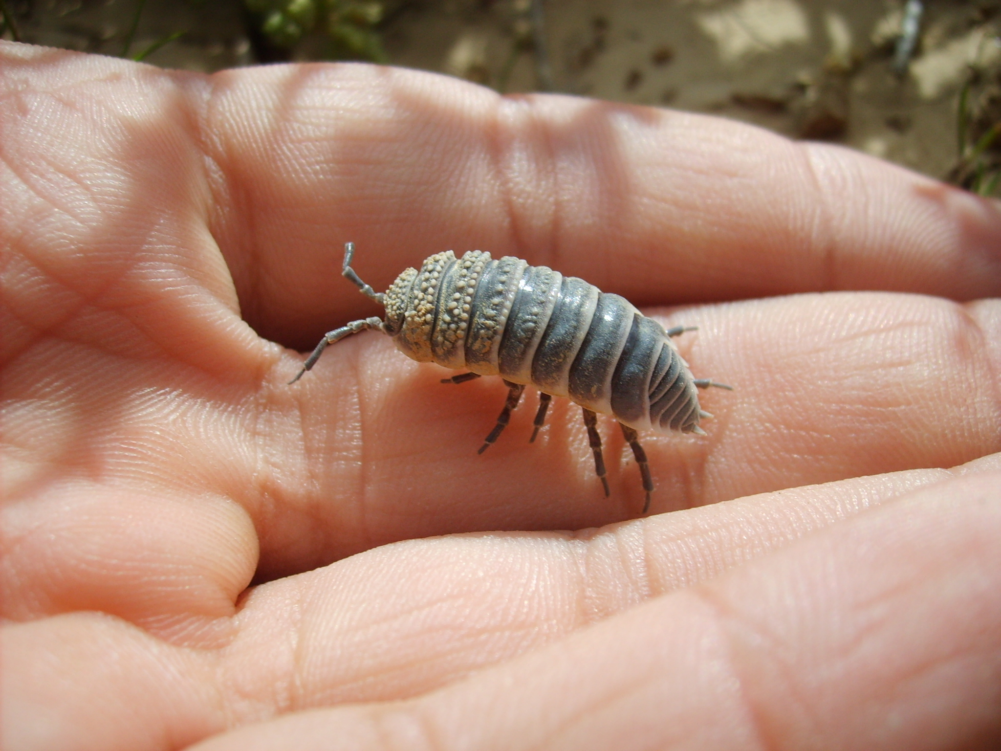 A desert isopod Hemilepistus reaumuri sampled in Tunisia